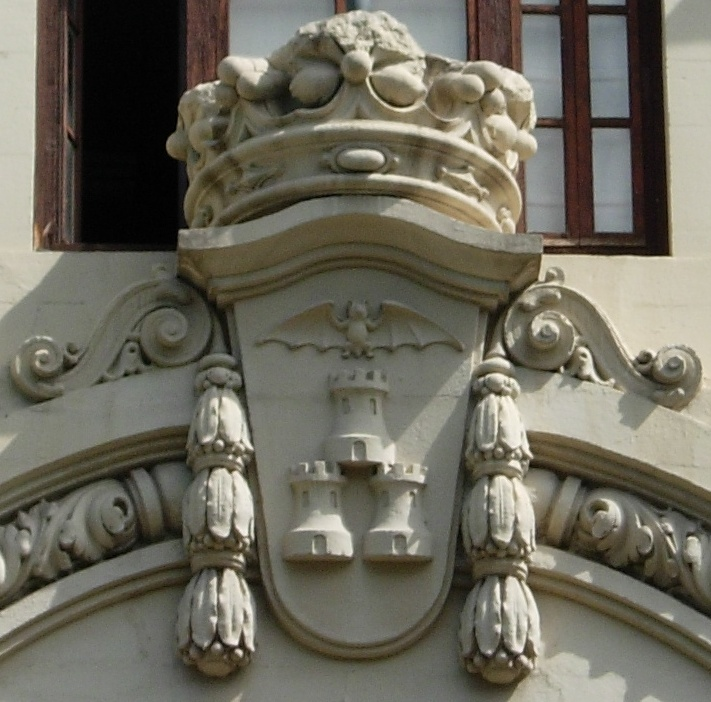 Escudo de Albacete en el IES Bachiller Sabuco/Coat of arms of Albacete in Bachiller Sabuco School